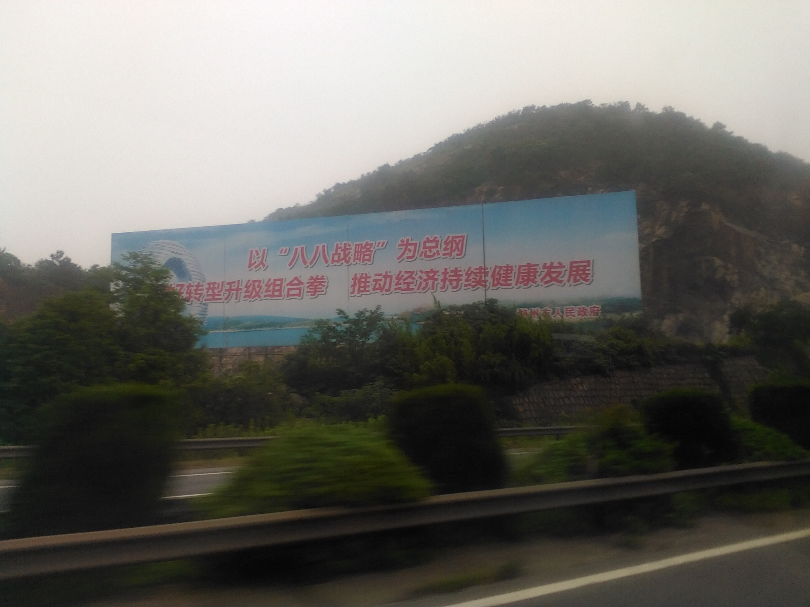 The "Eight Eight Strategy" slogan, located on G25 Changshen Expressway. It is a political concept, which proposed by Xi Jinping in 2003.